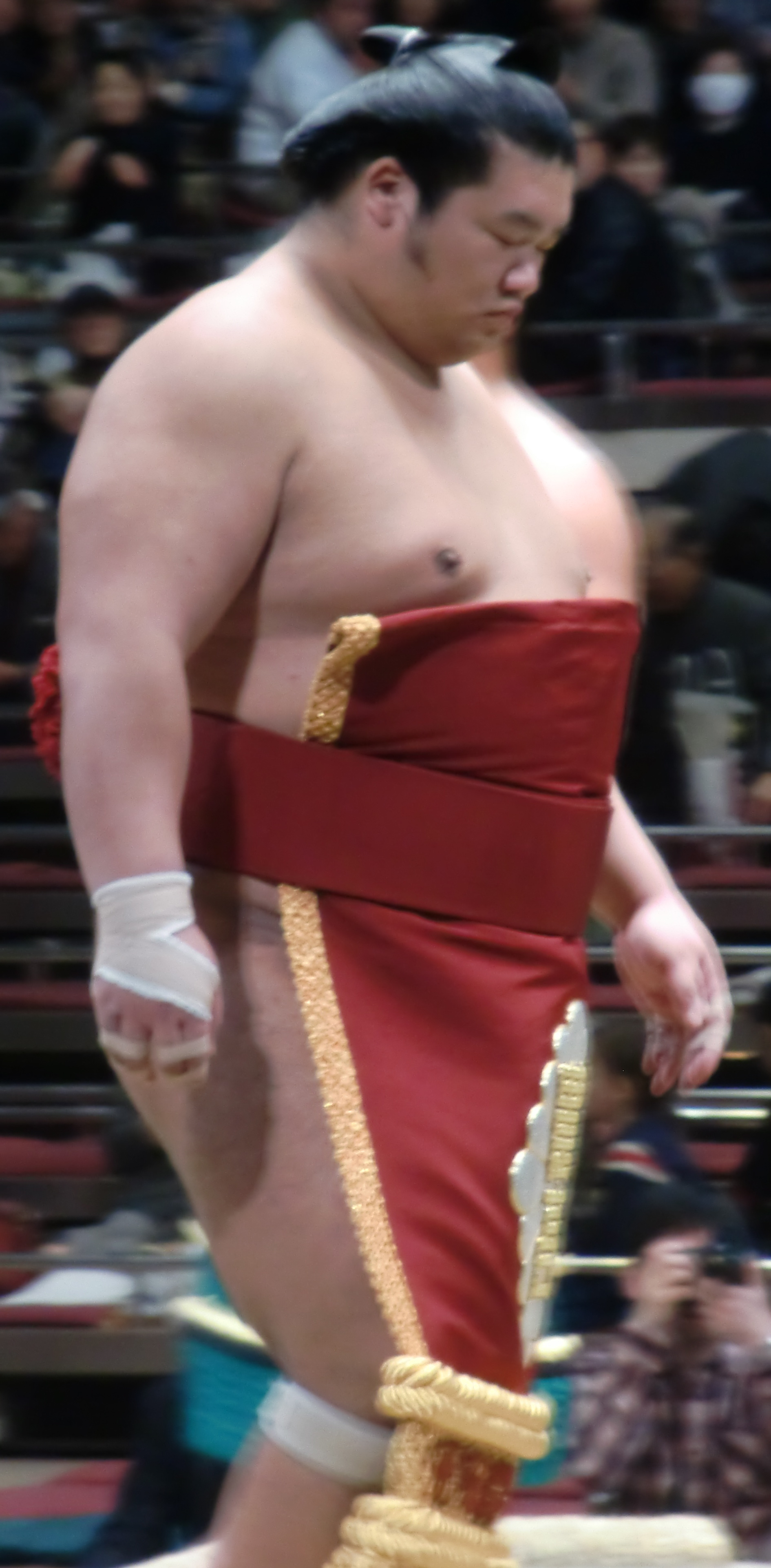 taken at 2012 Jan tournament